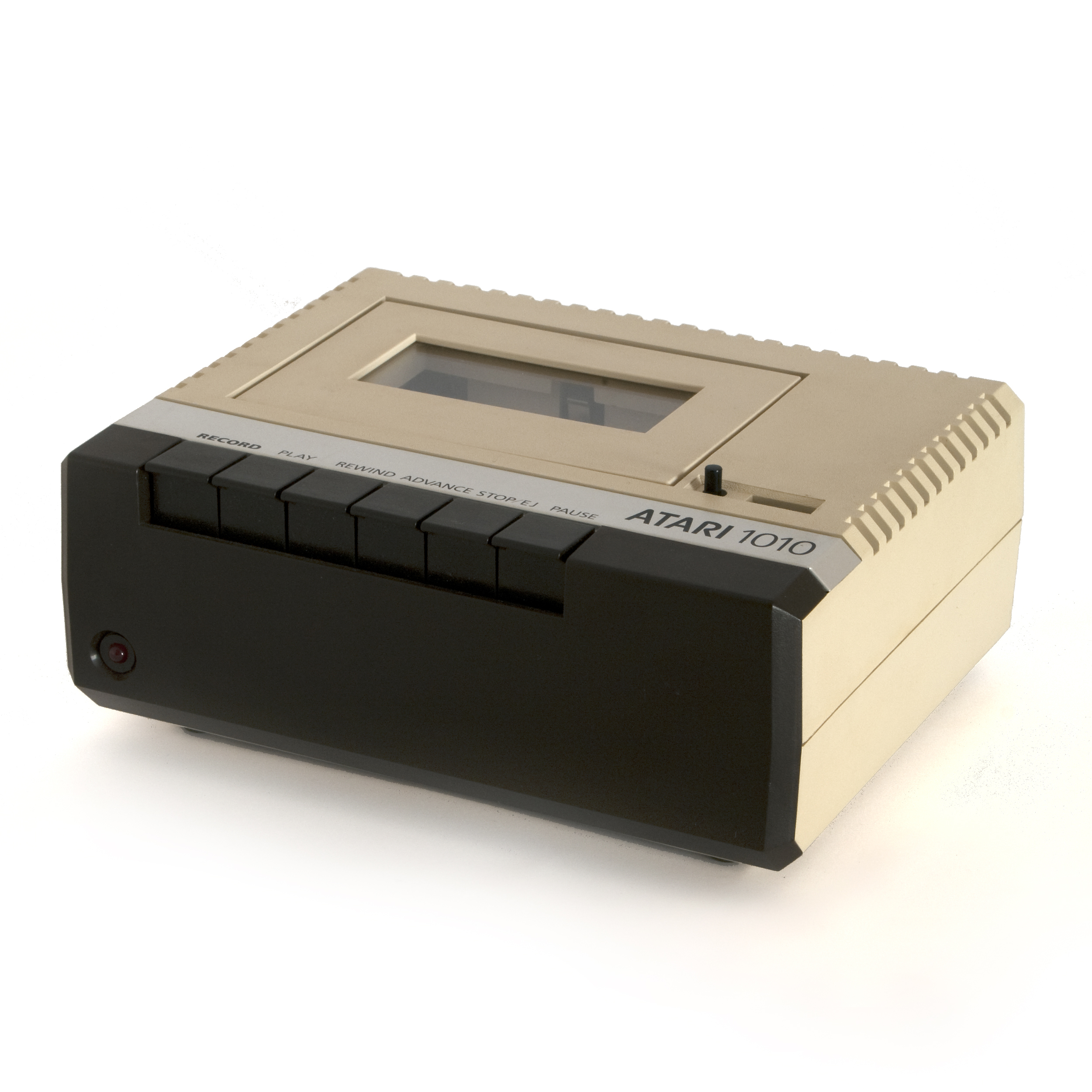 An Atari 1010 tape drive, as used on the Atari XL series of 8-bit computers.